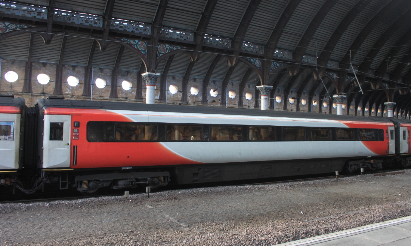 42210, an InterCity 125 standard class (TS) coach operated by Virgin Trains East Coast, in a southbound train at York.